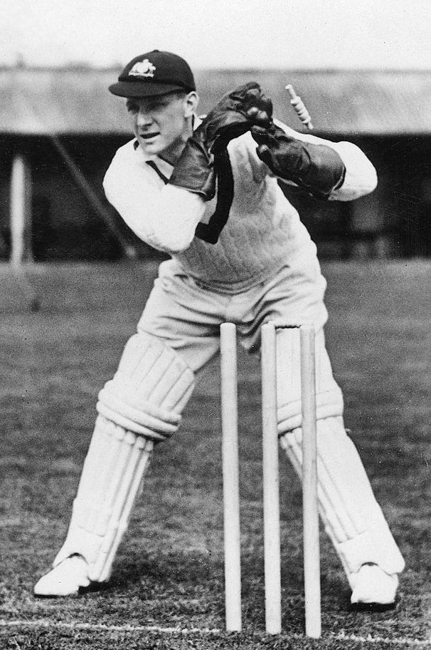 Cricket. Circa 1930. A picture of BA (Benjamin Arthur) Barnett, the Australia, Victoria, and Buckinghamshire wicket-keeper and left-handed batsman, seen here taking off the bails.